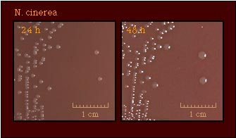 An image of the culture of Neisseria cinerea at 24 and then 48 hours from the Centers for Disease Control